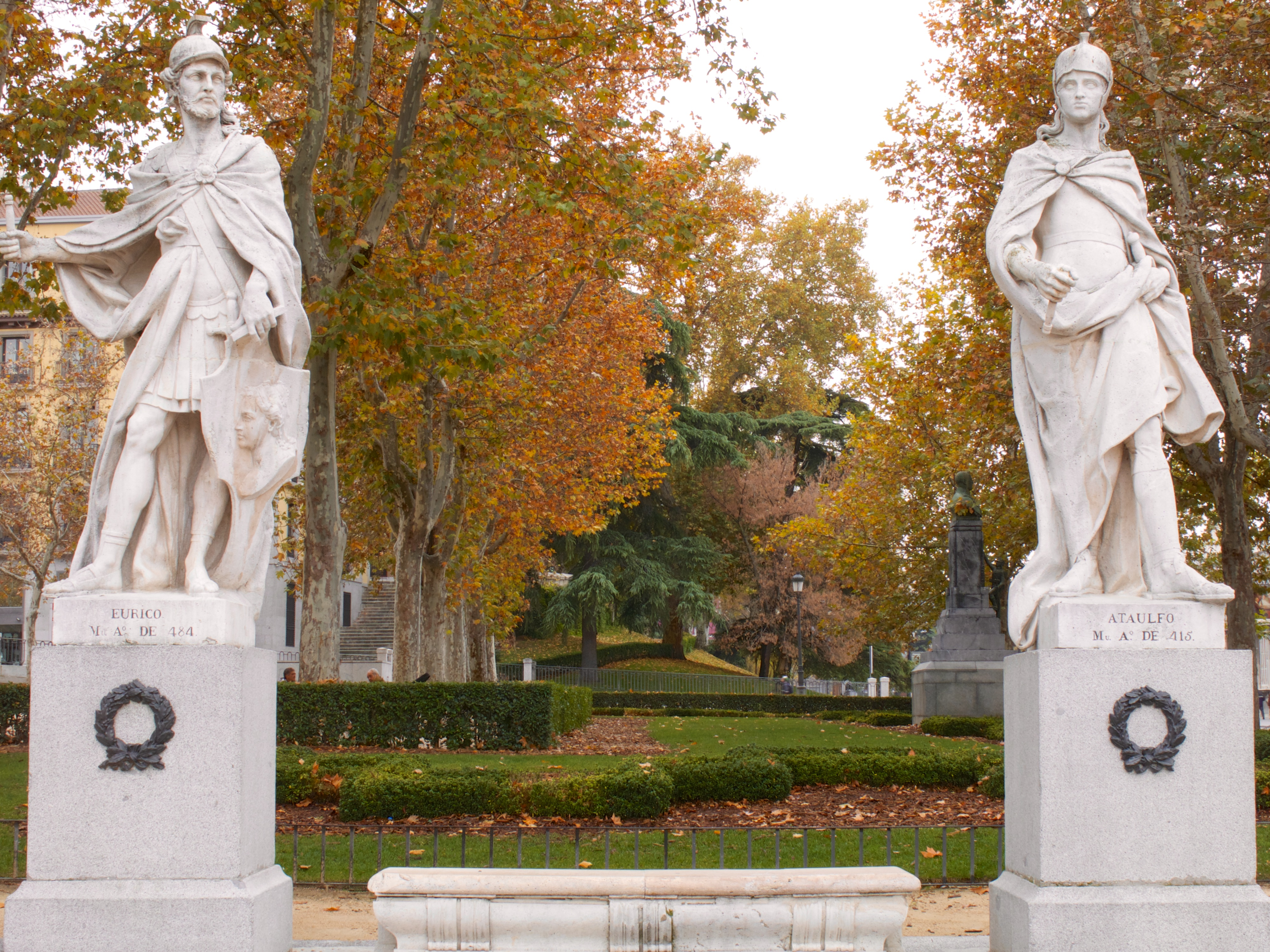 2 Gothic kings at Plaza de Oriente myspanishexperience com